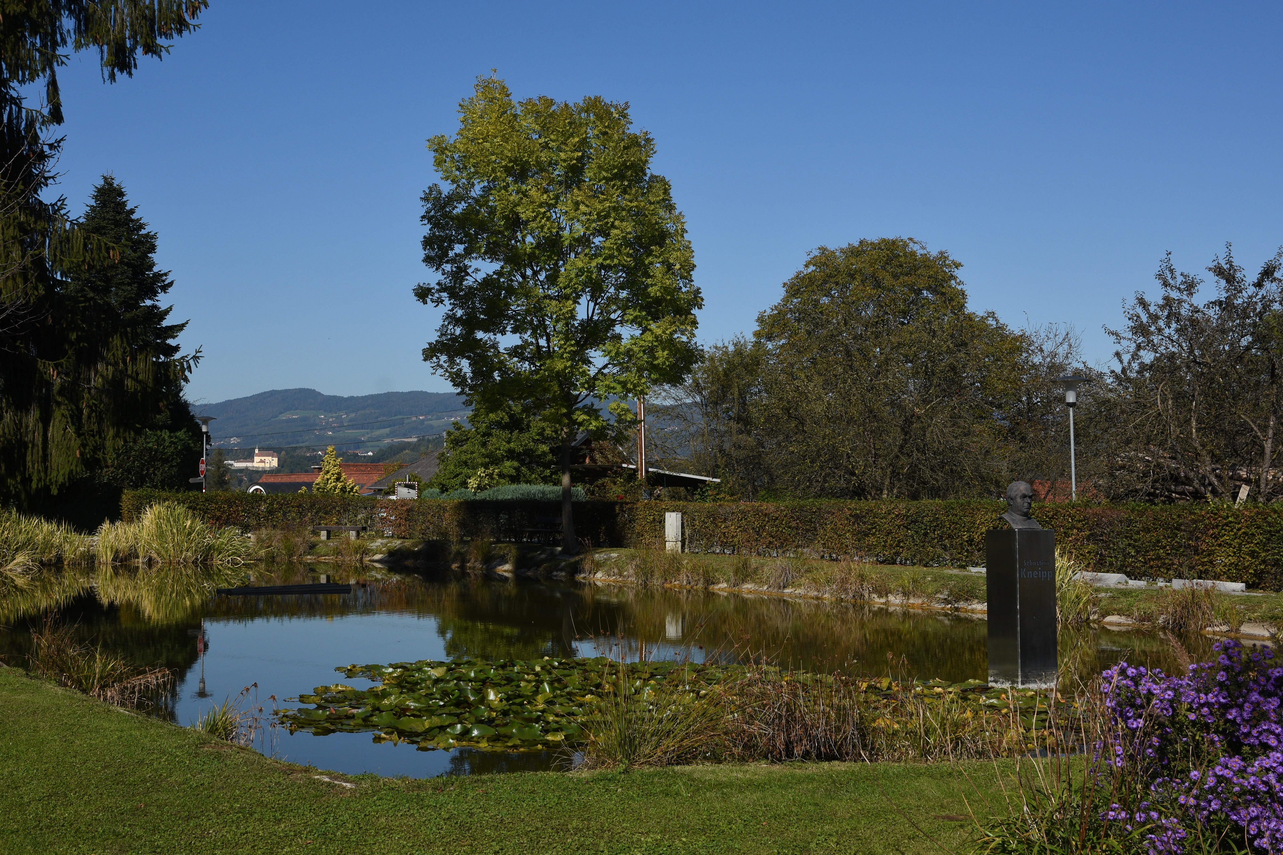 Sebastian Kneipp Park (Hirnsdorf)